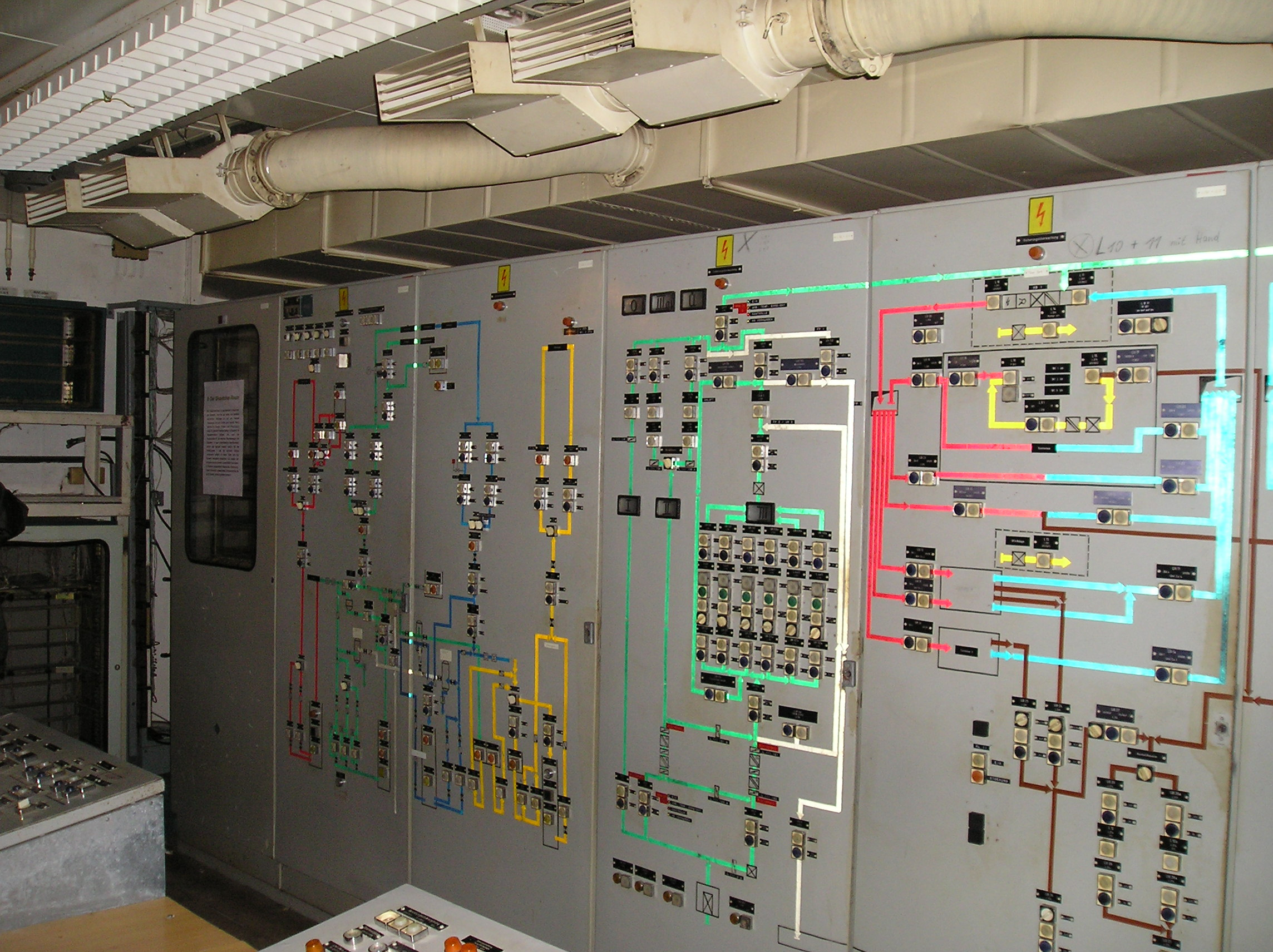 Object 17/5001 shelter in Prenden, Germany - Dispatch